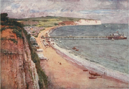 Caption: The white cliffs of Culver Down are the eastward end of the rib of chalk which has its other extremity at the Needles. Painted by A. Heaton Cooper - From the Beautiful Britain series, The Isle of Wight, by G. E. Mitton.